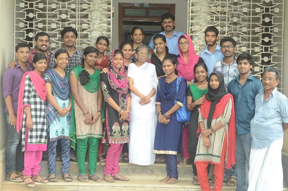 K. R. Gowri Amma, a major Indian politician hailing from Kerala with a group of young volunteers of the Kerala Sastra Sahitya Parishad at her residence in Alappuzha